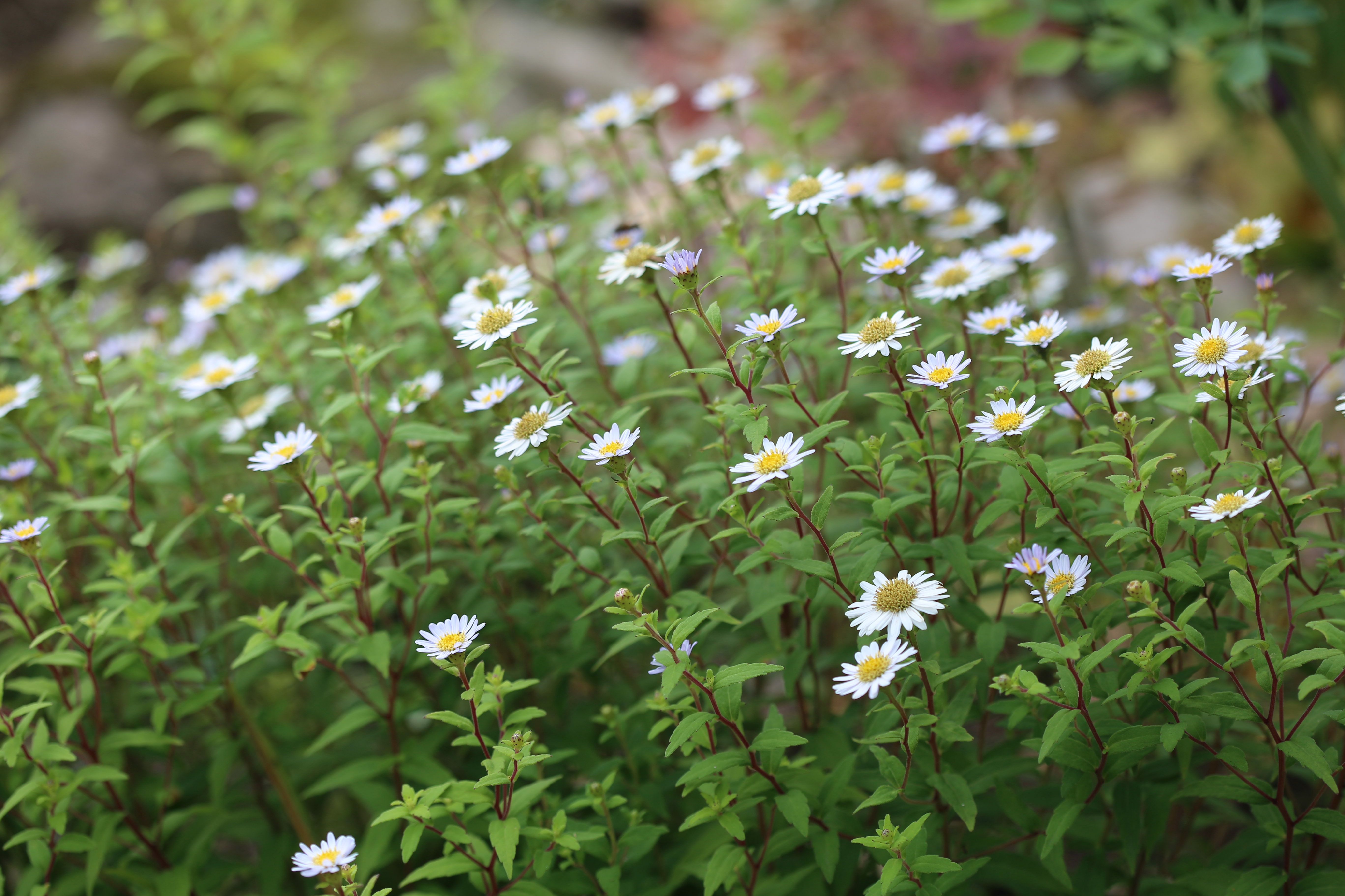 Aster viscidulus in Gothenburg Botanical Garden. Plant id: 2002-993 s W -- OFUNA